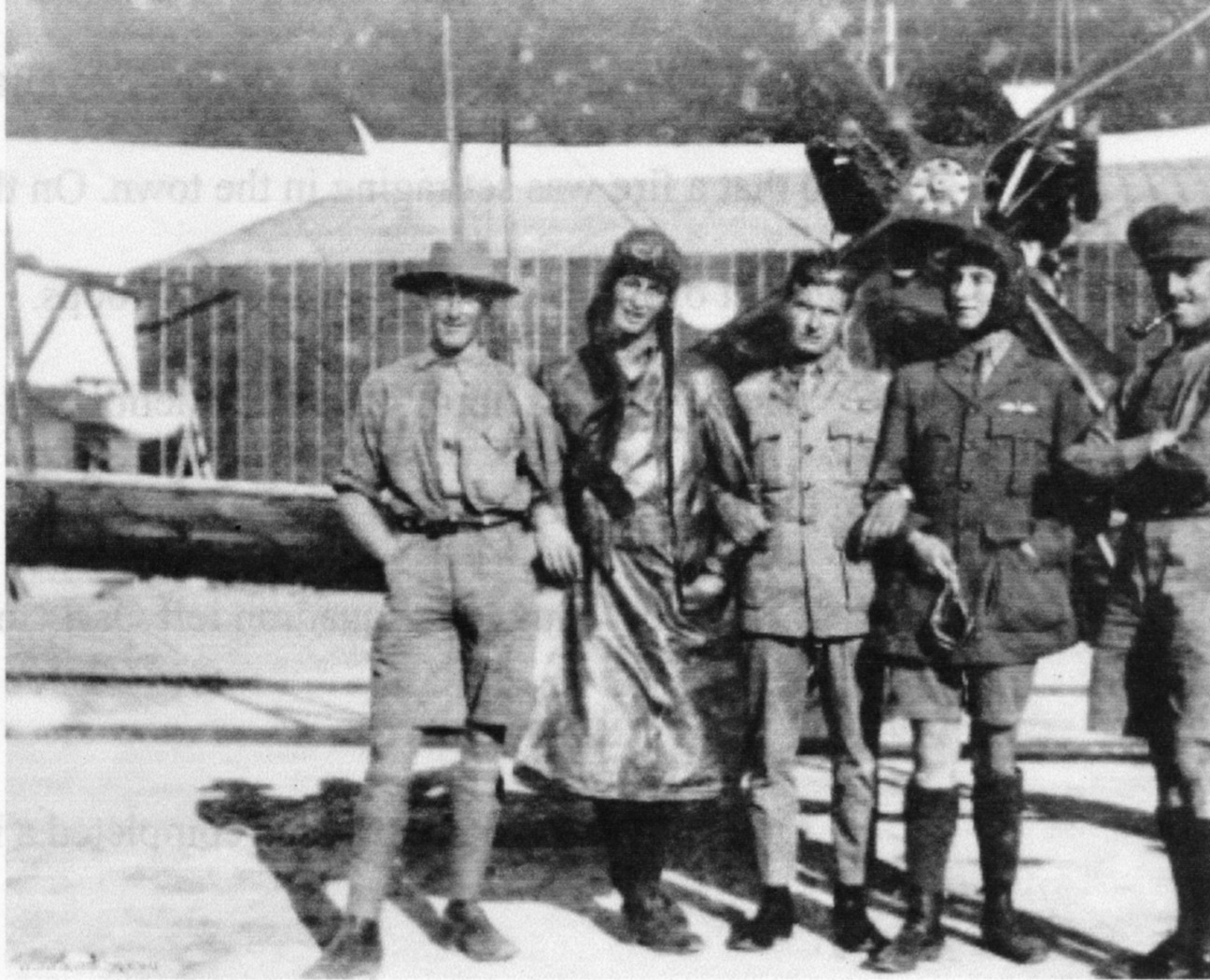 Lieutenants Norman Steel and A.T. Cole and Captain E. Roberts in group of Australian Flying Corps personnel, taken in the Middle East